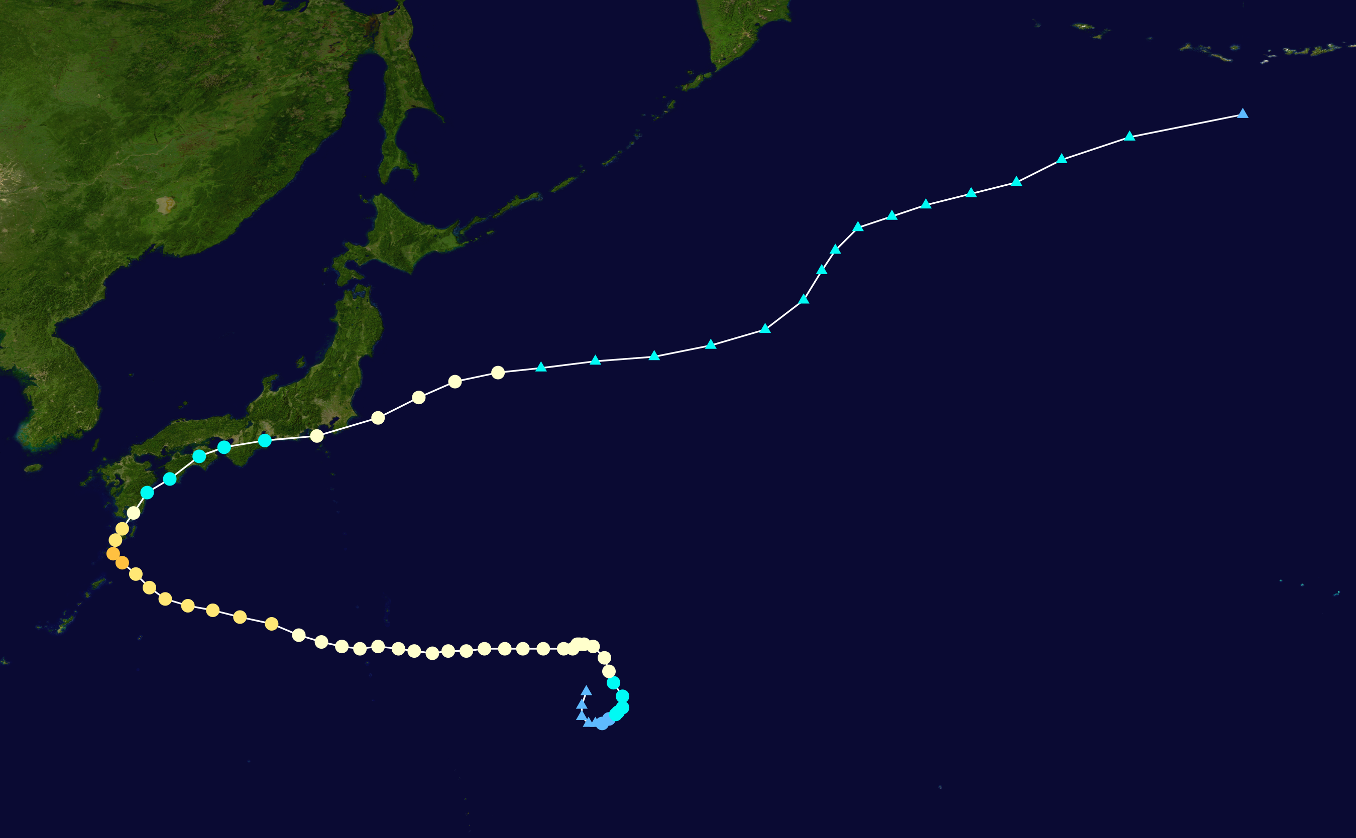 Track map of Typhoon Trix of the 1971 Pacific typhoon season. The points show the location of the storm at 6-hour intervals. The colour represents the storm's maximum sustained wind speeds as classified in the Saffir–Simpson hurricane wind scale (see below), and the shape of the data points represent the nature of the storm, according to the legend below. Saffir–Simpson hurricane wind scale Tropical depression≤38 mph≤62 km/h Category 3111–129 mph178–208 km/h Tropical storm39–73 mph63–118 km/h Category 4130–156 mph209–251 km/h Category 174–95 mph119–153 km/h Category 5≥157 mph≥252 km/h Category 296–110 mph154–177 km/h Unknown Storm typeTropical cycloneSubtropical cycloneExtratropical cyclone / Remnant low / Tropical disturbance